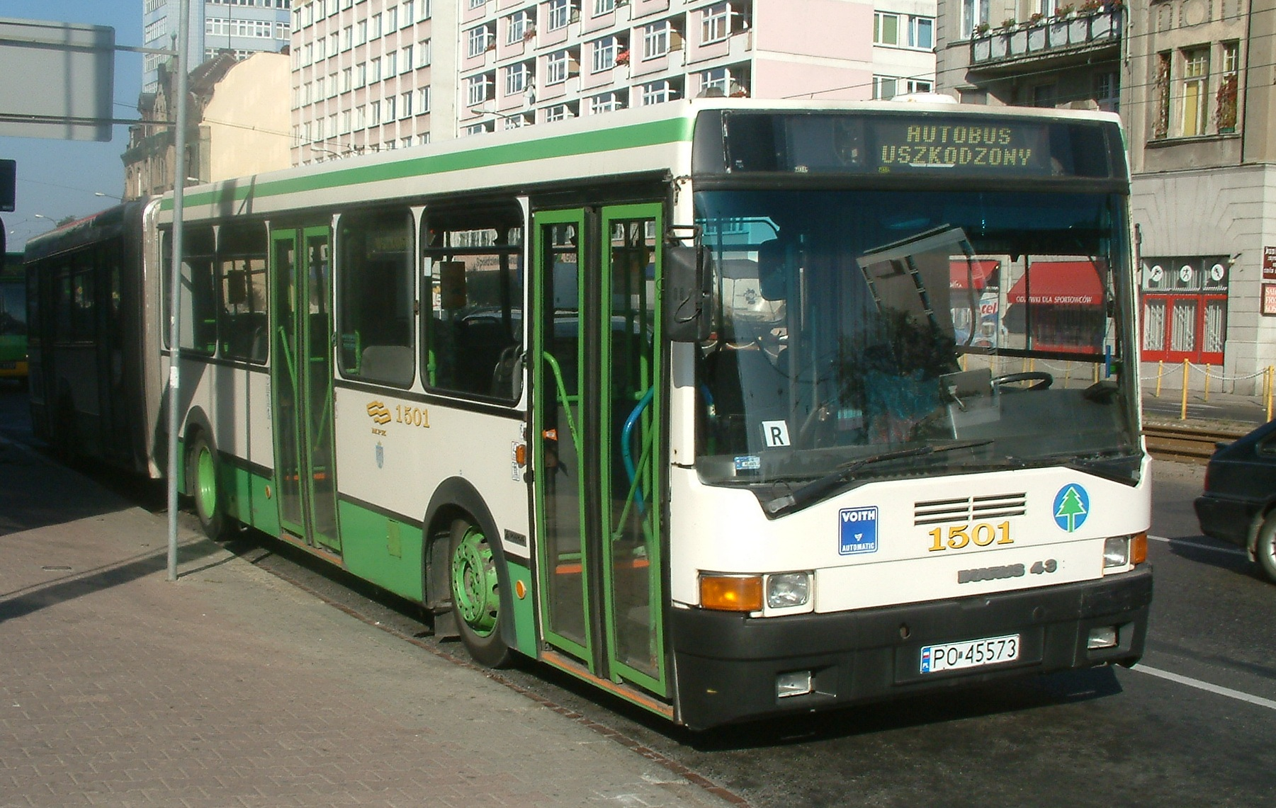 Ikarus 435.22 (#1501) bus in Poznań, Poland. Built 1994. MPK Poznań operator.